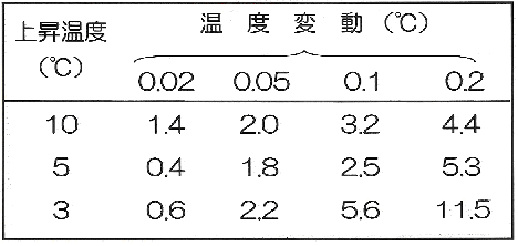 表１ 試料温度変動と熱線上昇温度によって 算出される熱伝導率に付随する誤差(%)